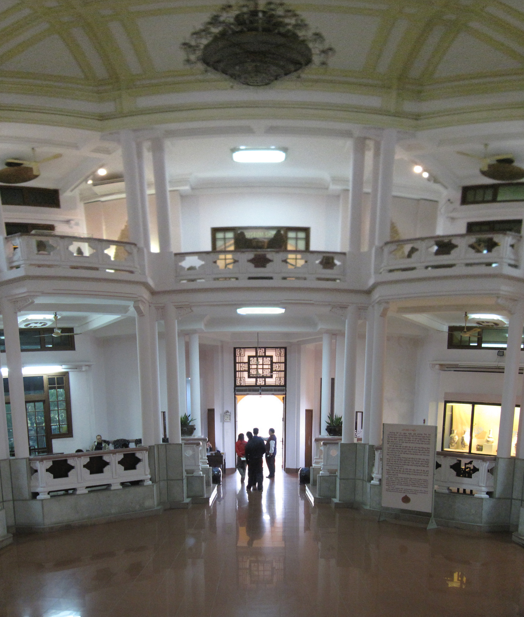 Main hall of the National Museum of Vietnamese History